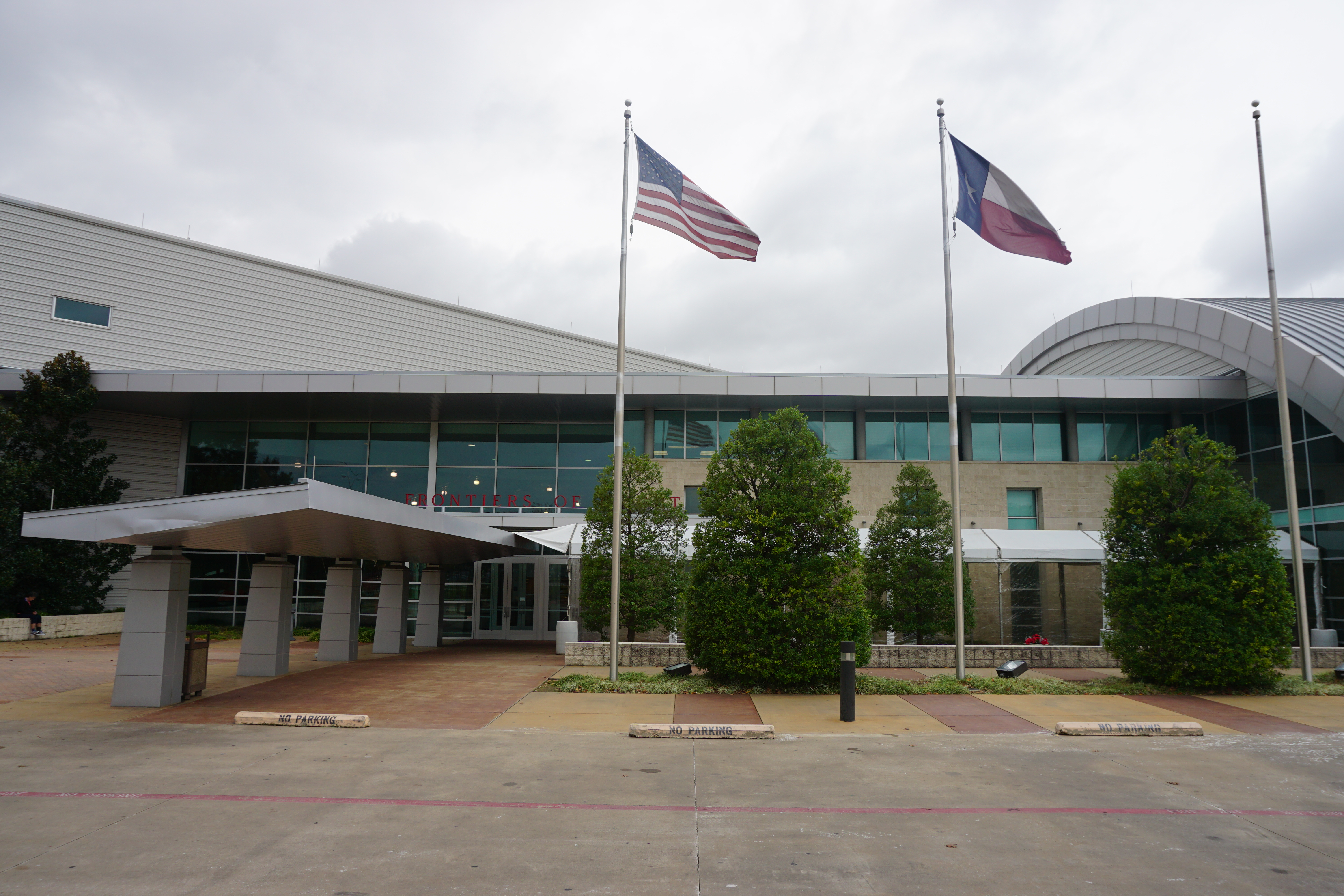 The exterior of the Frontiers of Flight Museum at Dallas Love Field in Dallas, Texas (United States).